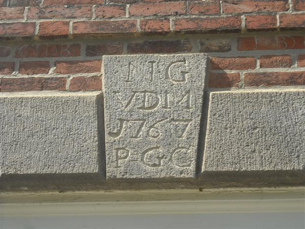 Example of Colonial Presbyterian Architectural feature. Also proof of Latin acronym V.D.M. for Verbi Divini Minister.